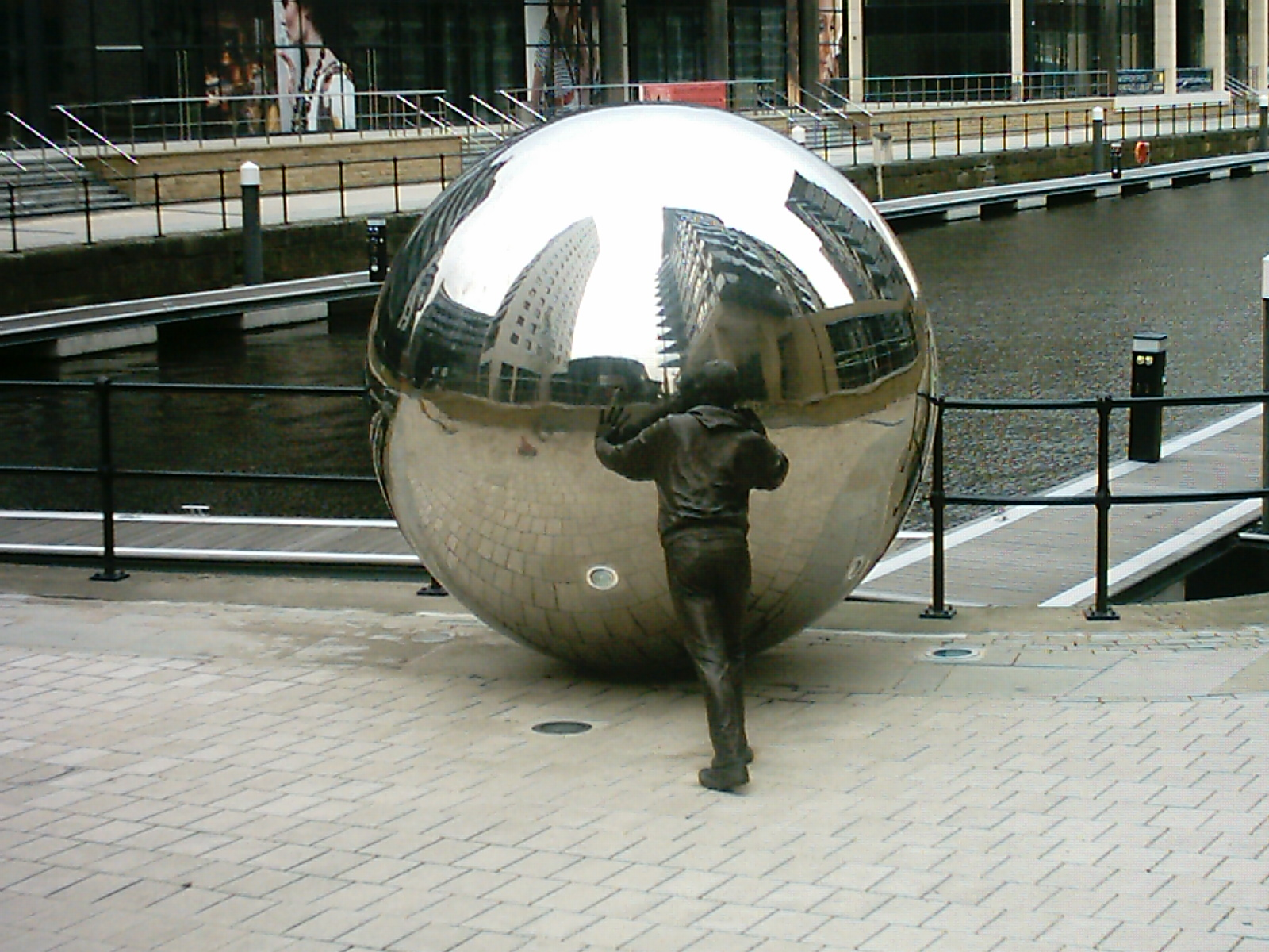 Public art displayed at Clarence Dock